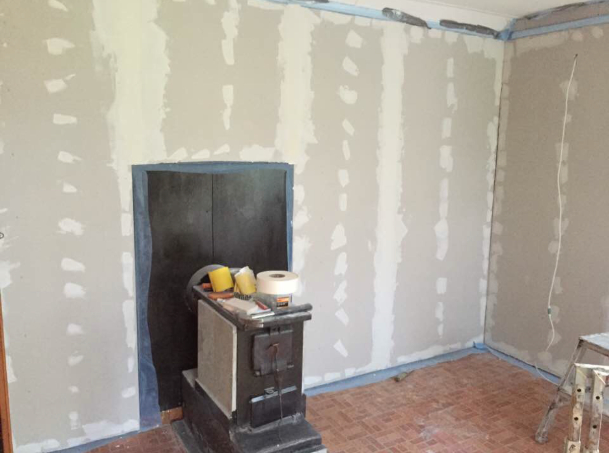 Walls with filler